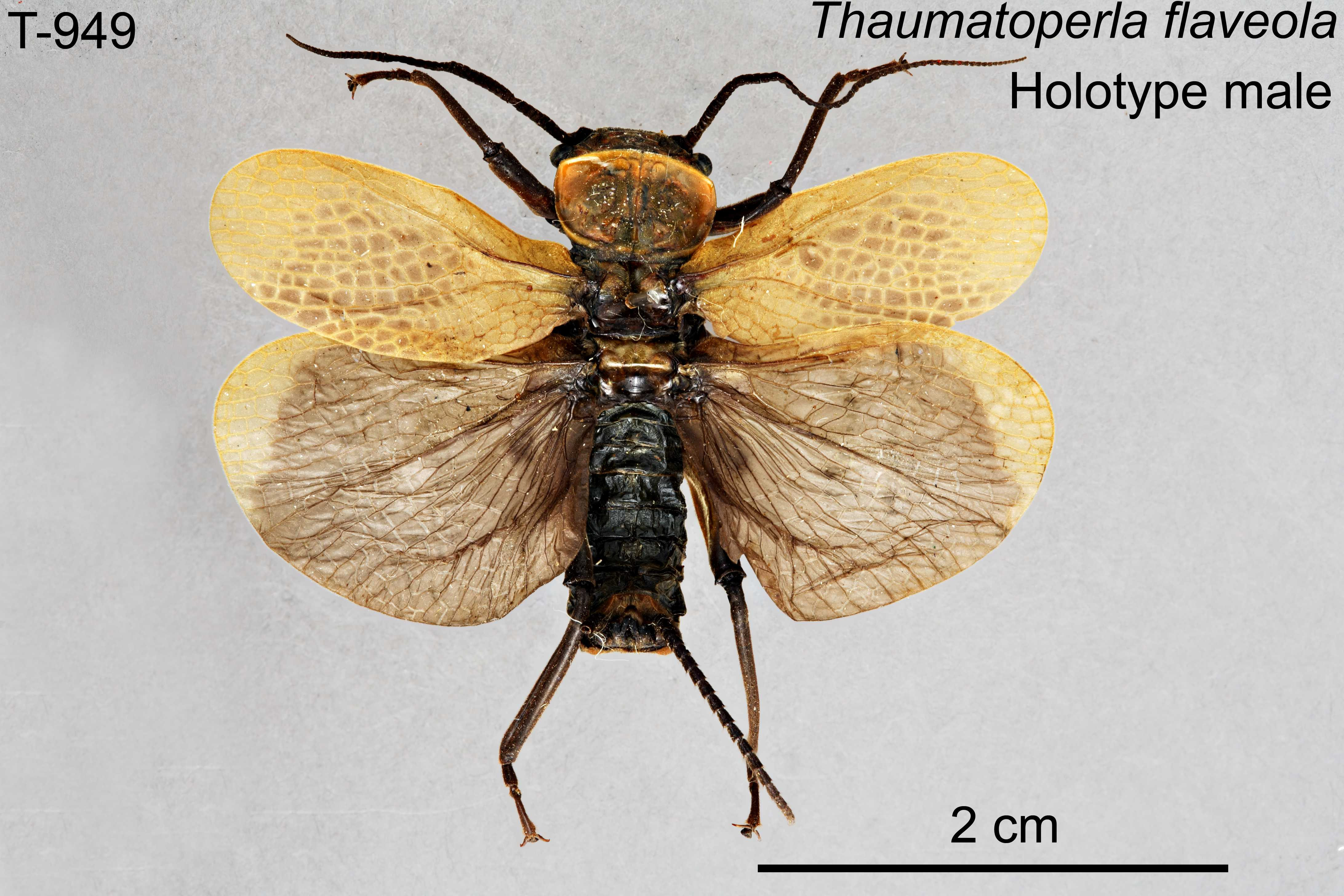 Mount Stirling Stonefly (Thaumatoperla flaveola Image from Museum Victoria provider for OZCAM licensed Creative Commons Attribution 3.0 Australia (CC BY)